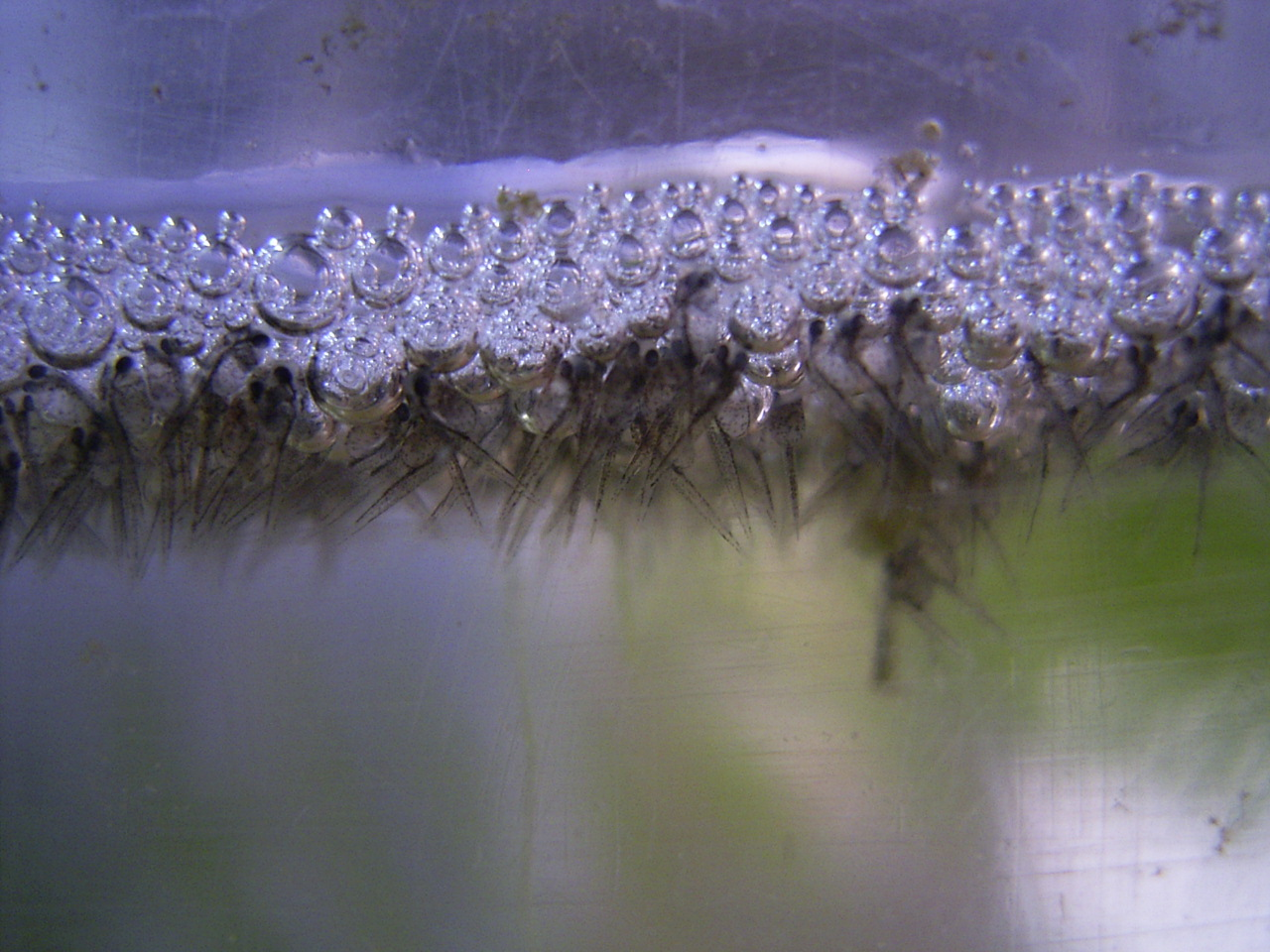 Author: Tenn Hian-kun Description: Paradise baby fishes just hatched, gathered under the surface of the bubble net